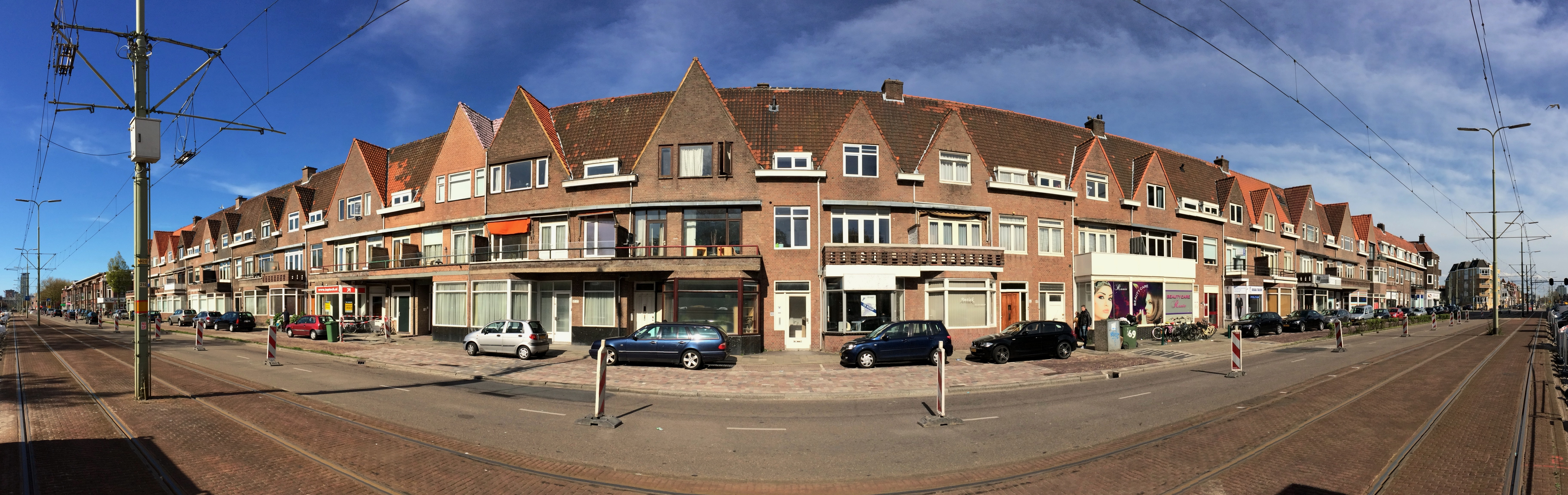 The Haagweg ("Hague Road") in Rijswijk (province South Holland, Netherlands).